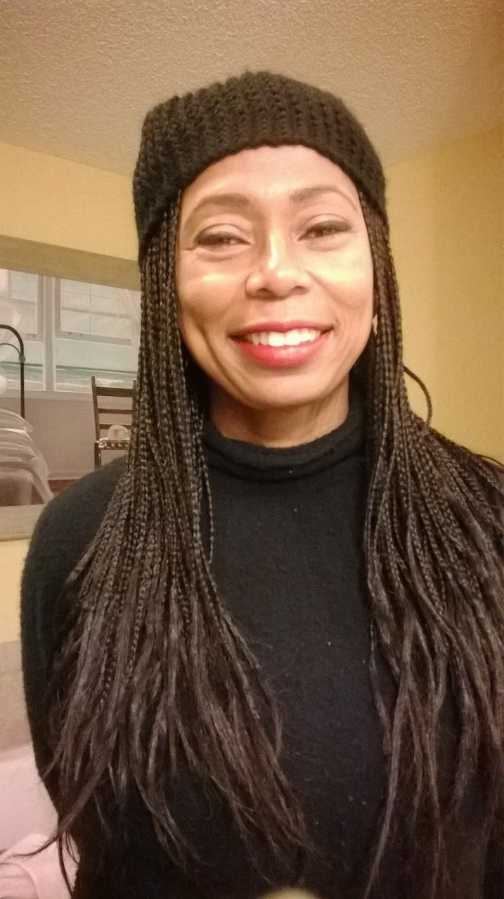 Valerie Rose, American author, model and filmmaker